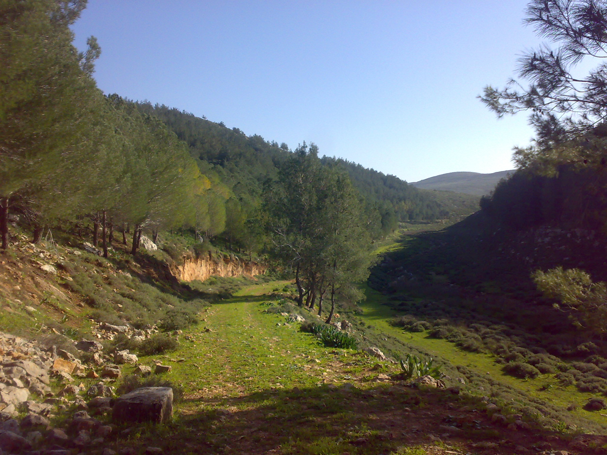 أحراش يعبد